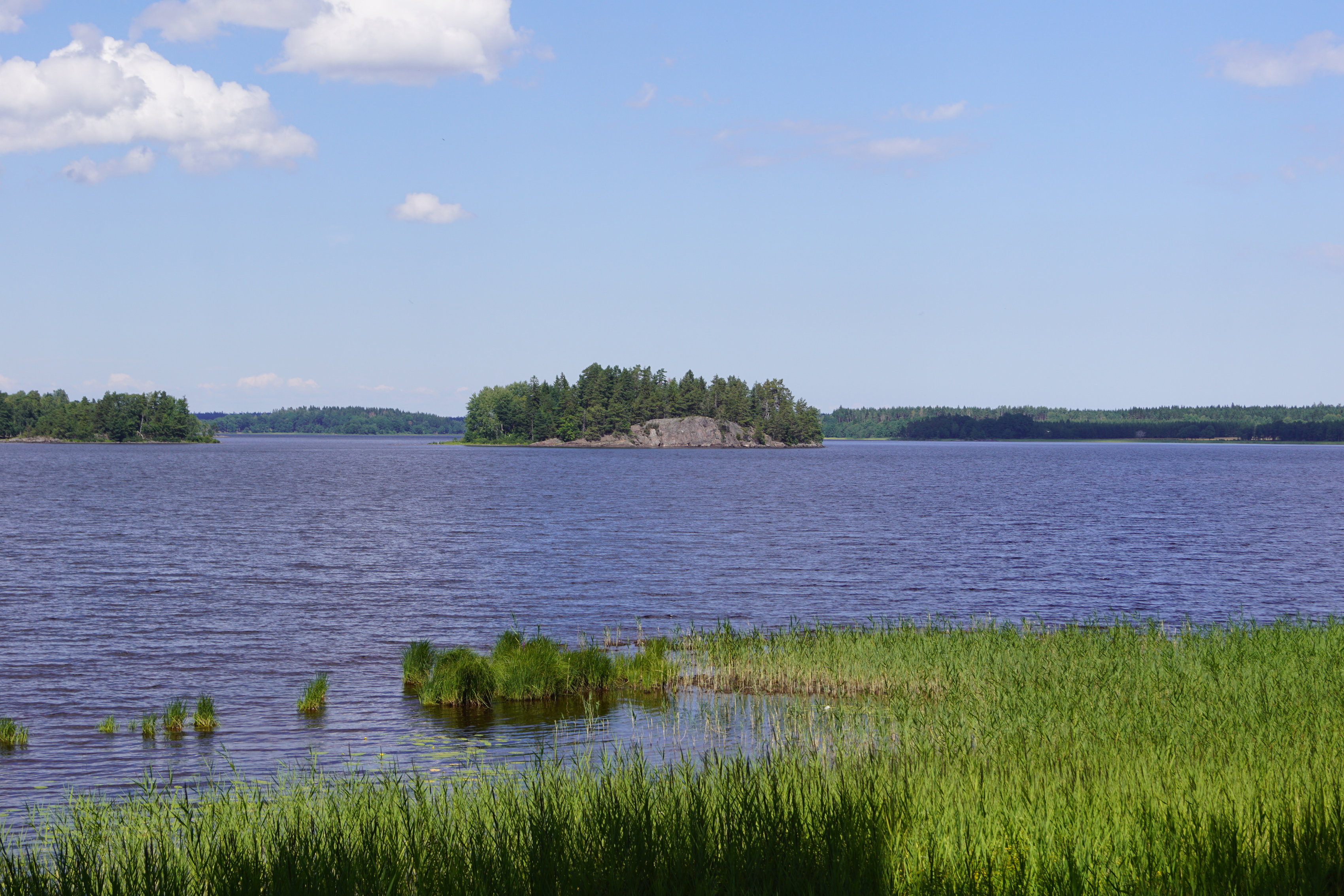 Vanderydsvattnet, a lake in the province of Västergötland, Sweden.